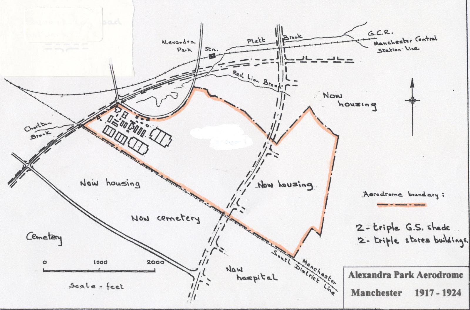 Chart of Alexandra Park aerodrome layout 1917-1924, prepared 2008